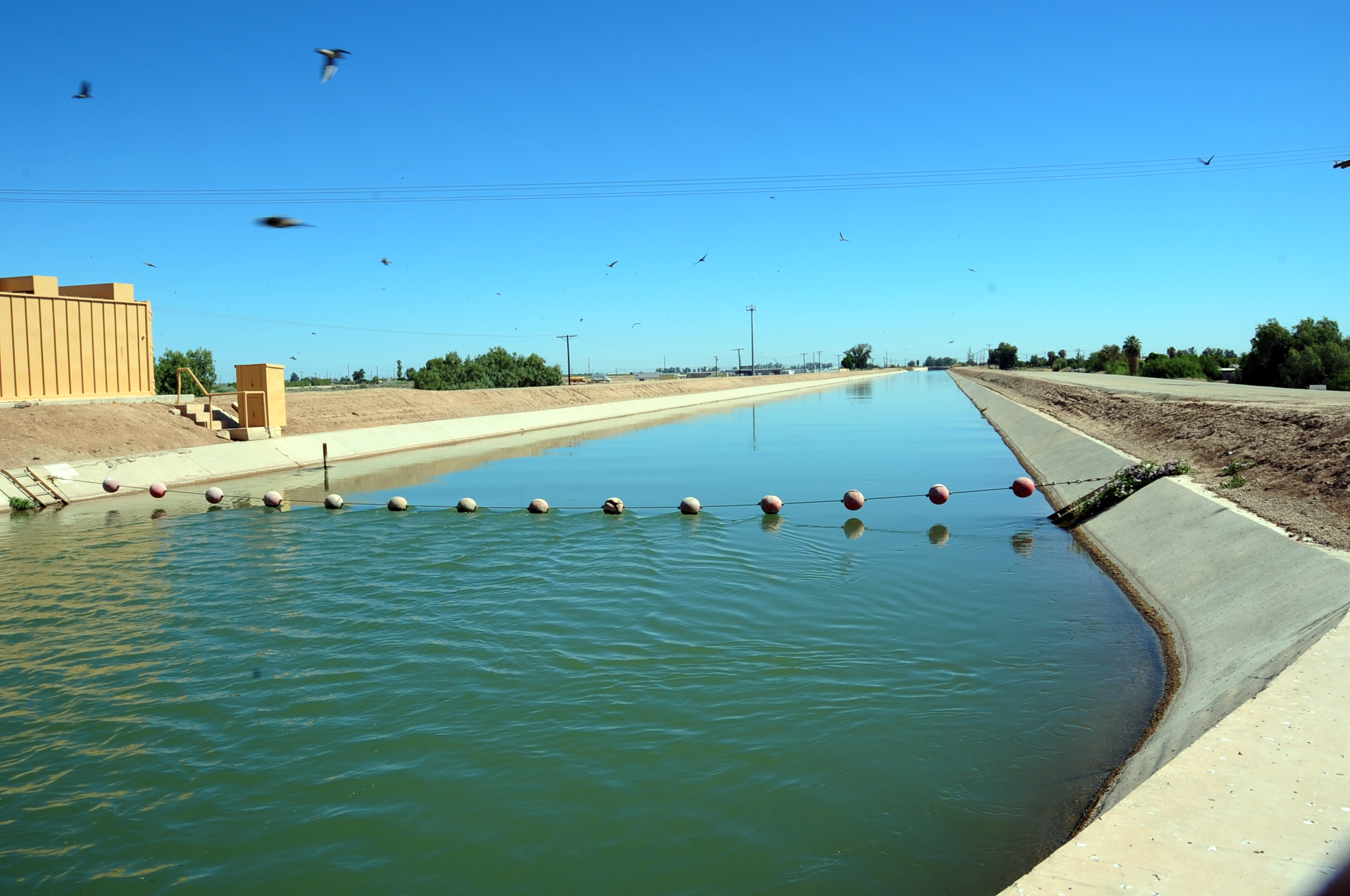 Calexico, CA, June 15, 2010 -- The All American Canal is an engineering marvel as it harnesses the Colorado River and disperses it throughout irrigation canals, while the system feeds agricultural production throughout Imperial County. After the 7.2 Baja California Earthquake struck the canal, FEMA is inspecting the structures for cracks and potential threats to the community. Adam DuBrowa/FEMA